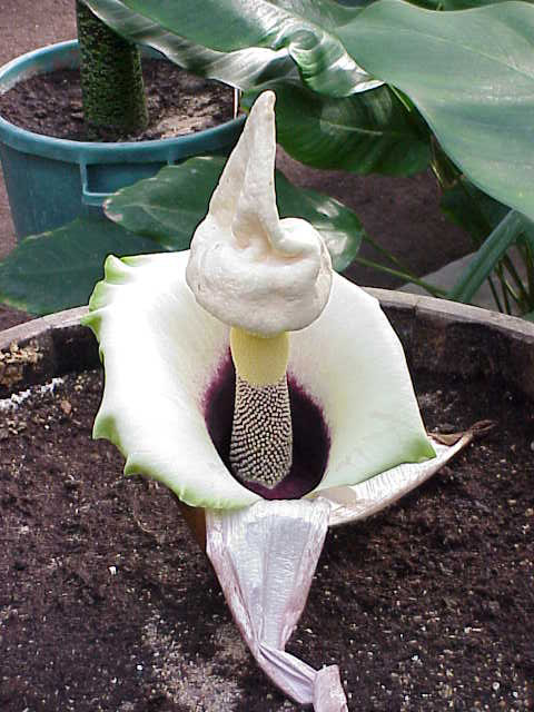 Species: Amorphophallus prainii Family: Araceae Image No. 4